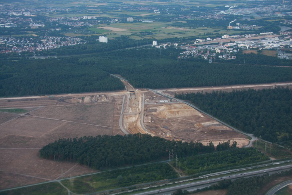 Forest clearing work underway near Kelsterbach as part of the expansion of Frankfurt Airport (construction of new runway 07L/25R)